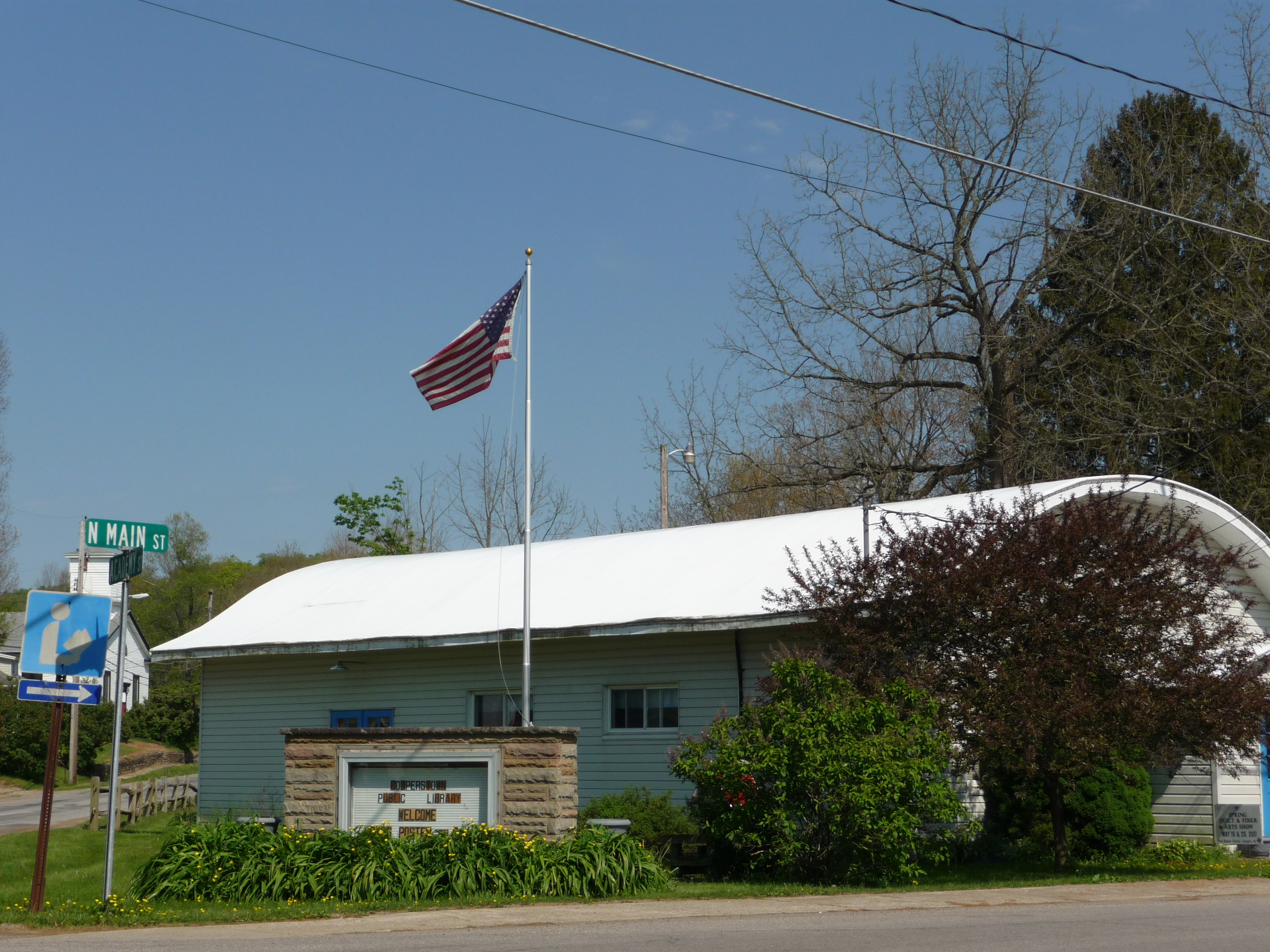 Exterior photograph of the Cooperstown Public Library in the Borough of Cooperstown, Venango County, Pennsylvania.